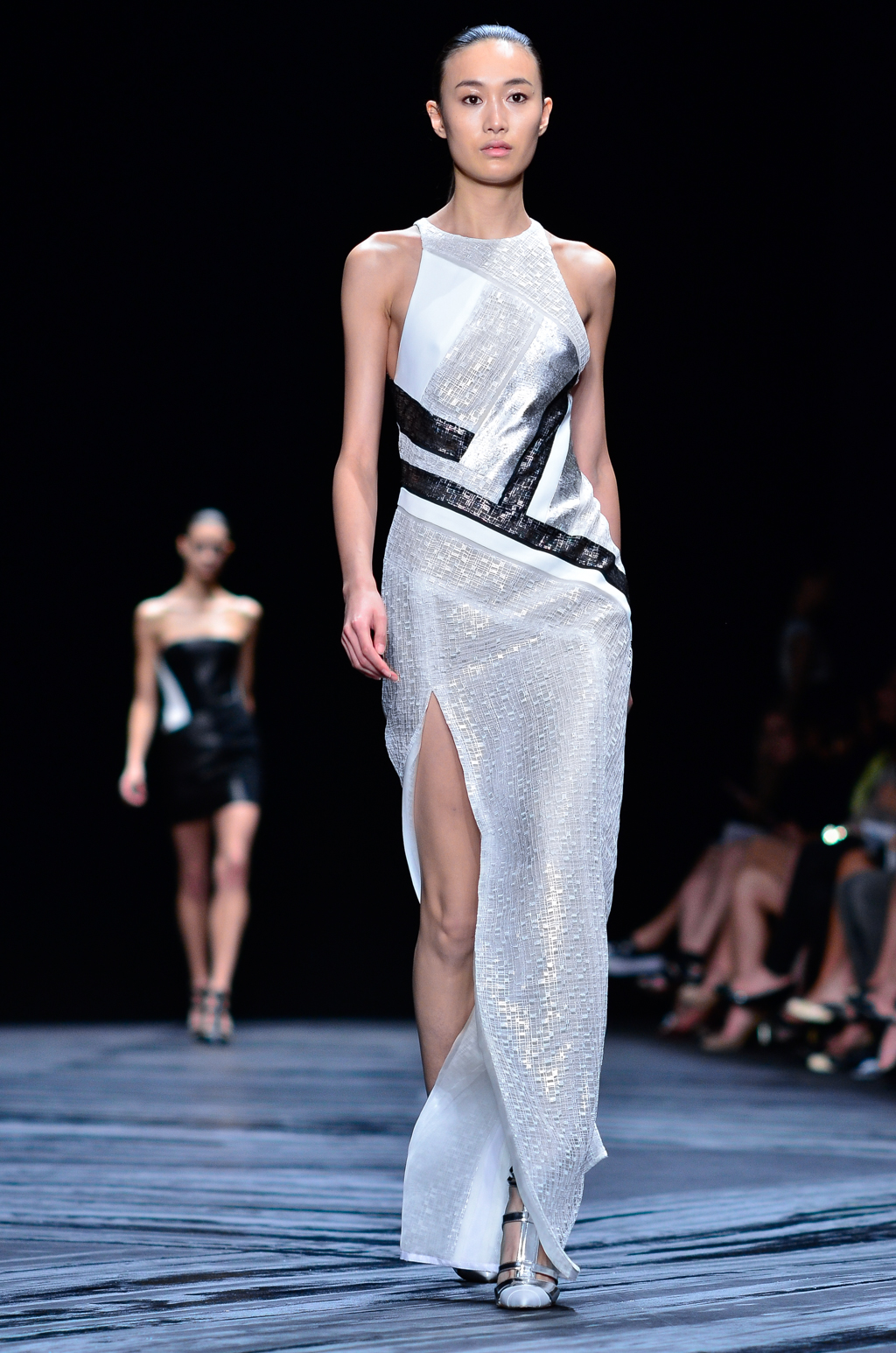 Chinese model Shu Pei